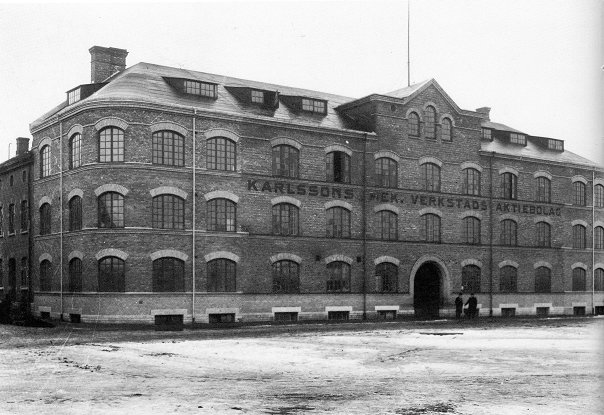 Karlssons Mechanical Workshop in Skövde, Sweden, burnt down in 1937.